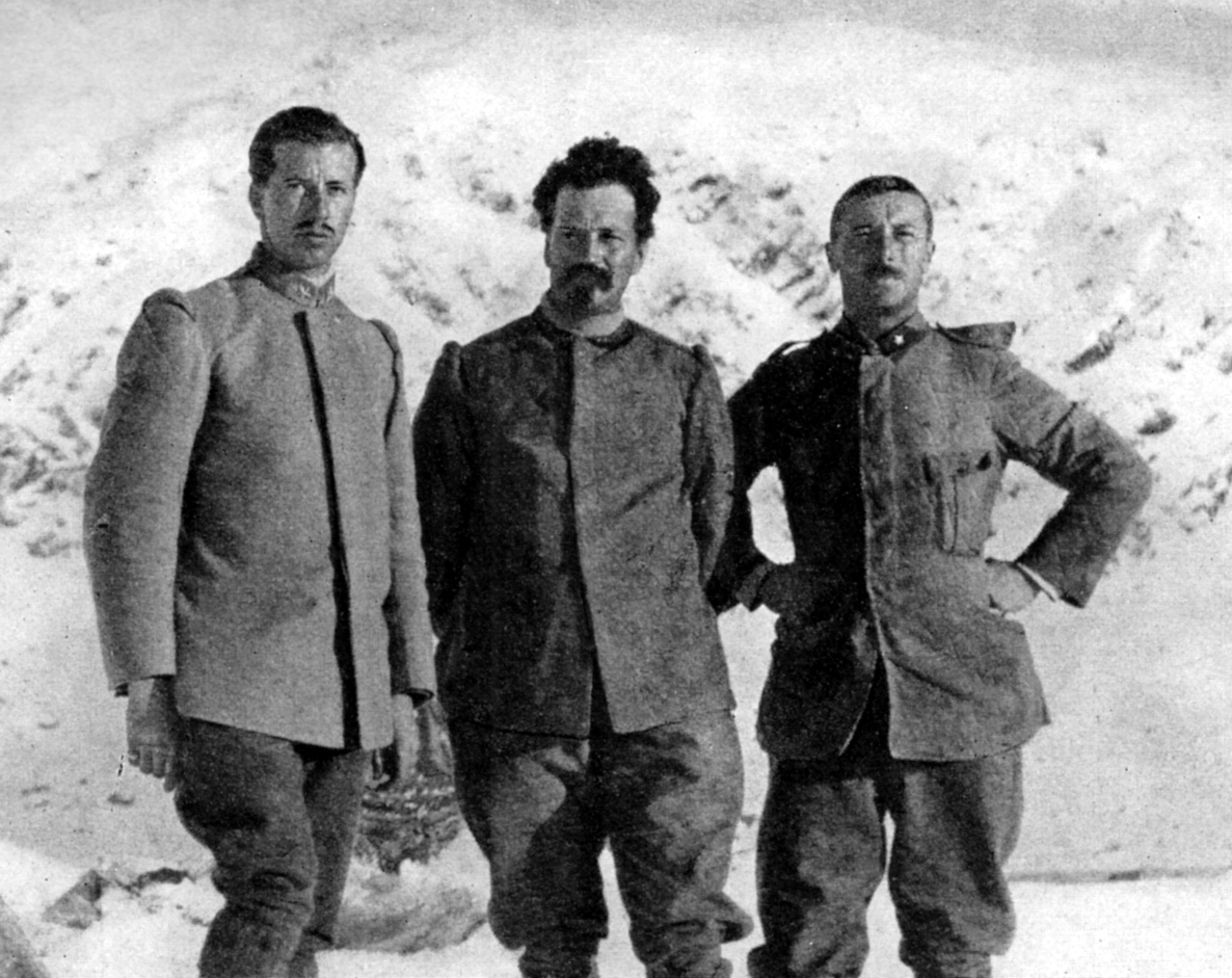 from left: Attilio Calvi, Cesare Battisti, Nino Calvi, Adamello 1916